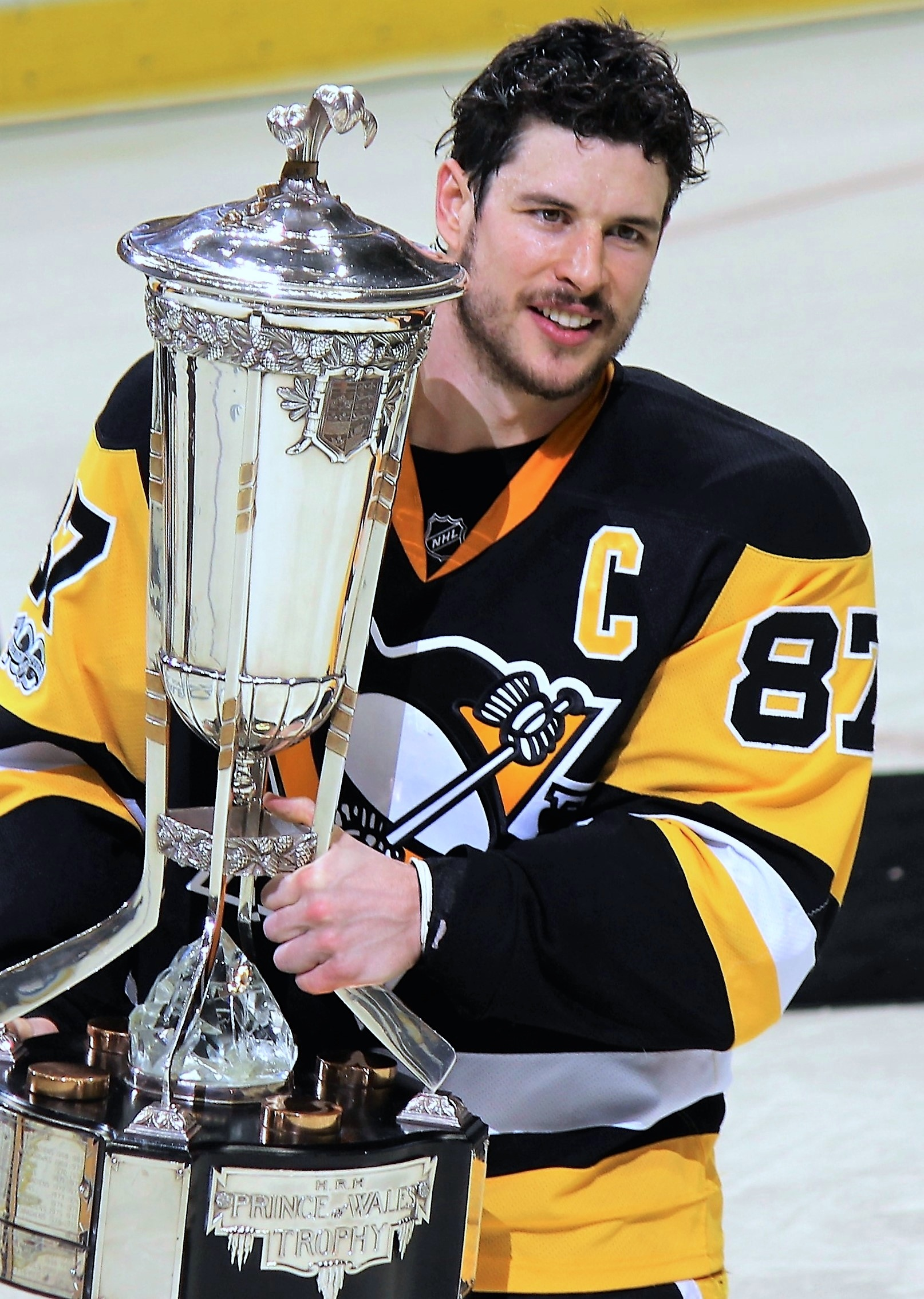 Pittsburgh Penguins captain Sidney Crosby accepts the Prince of Wales Trophy following the Pens double overtime win over the Ottawa Senators in game 7 of the Eastern Conference Final, May 25, 2017, at PPG Paints Arena in Pittsburgh, PA.